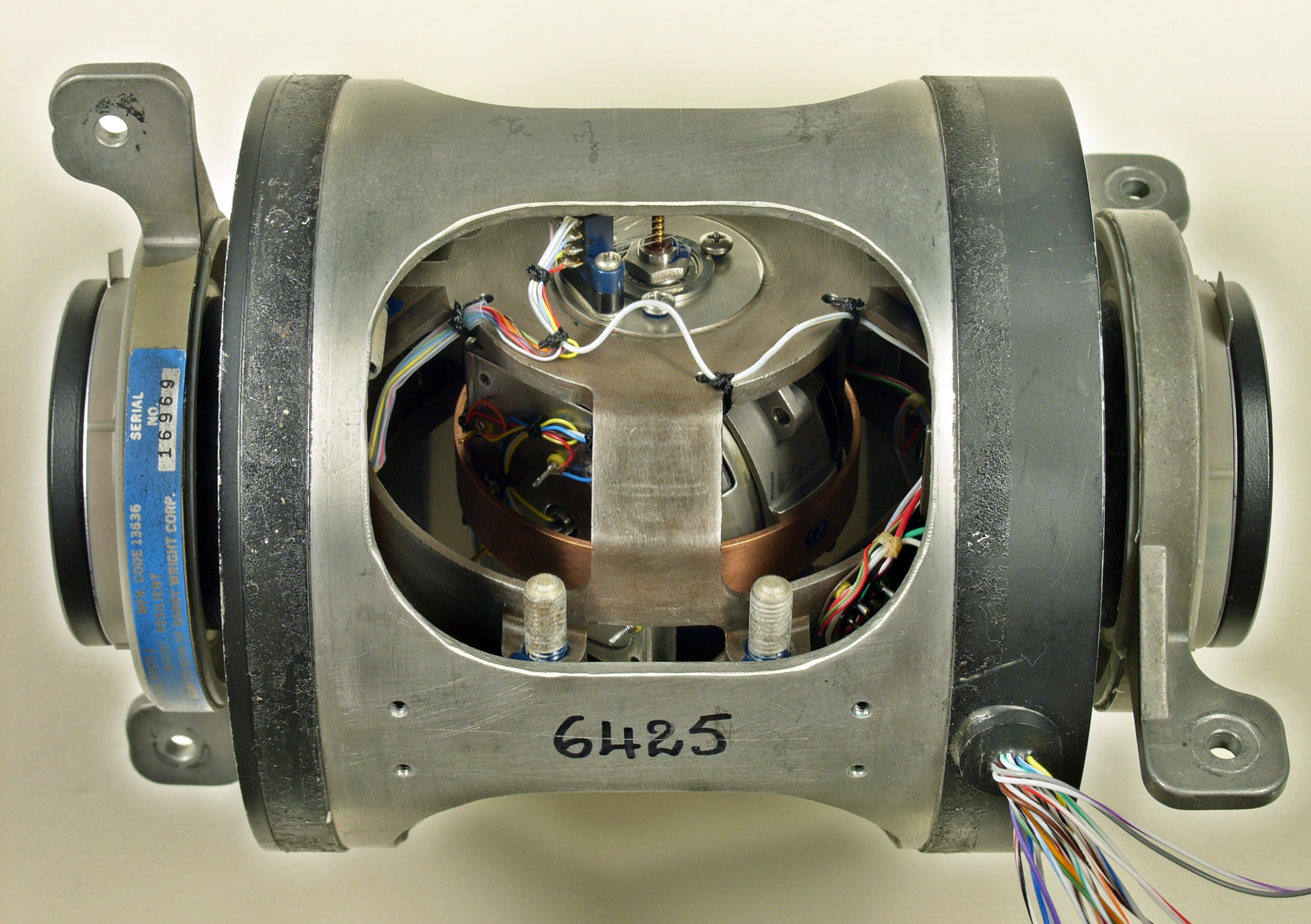 Gyro compass from air plane VG-401 Attitude reference part no. 2593691, weight 5.5 lb, Sperry flight systems, Phoenix, Arizona, U.S.A.